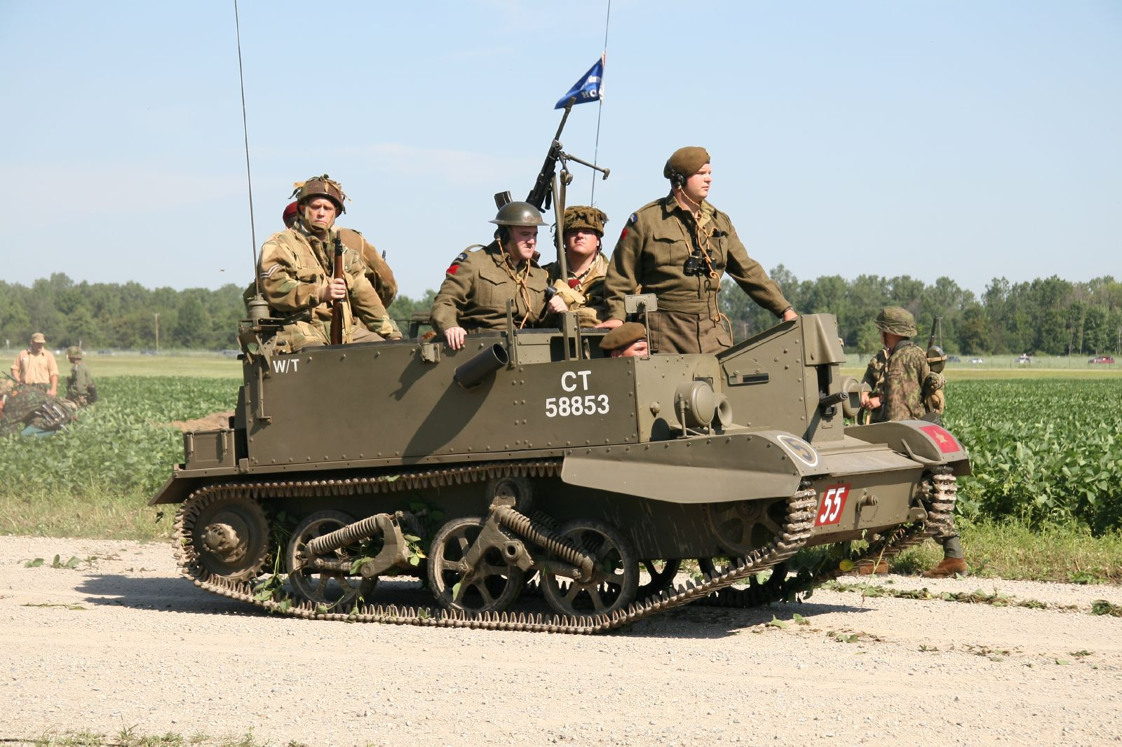 British Universal Carrier, Thunder Over Michigan 2006.